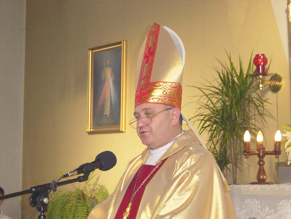 Old Catholic Church in Poland, Bishop Mark John Kordzik